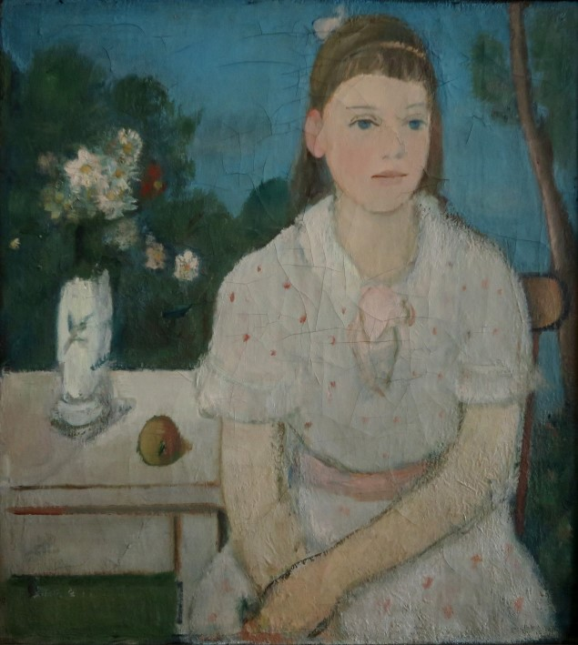 Painting of a girl